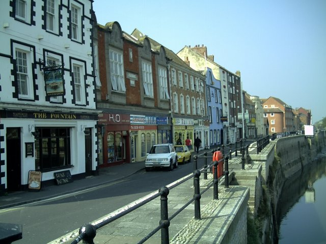 West Quay in Bridgwater